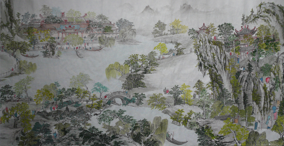 A Giant Traditional Chinese Painting —100 meter long landscape painting A 100 meter long landscape painting —— A trip to Hills and Lakes in Spring The painting is 67cm high and 108 m long. There are more than ten thousand people between the mountains and water, all lively, so it is also called Ten Thousand People Traveling in spring. Between the high mountains and flowing water and different people, there are more than three hundred pavilions, and no one is similar to another. In the whole landscape painting, no two pieces of water are alike, no two people are alike, and no pavilions are alike.